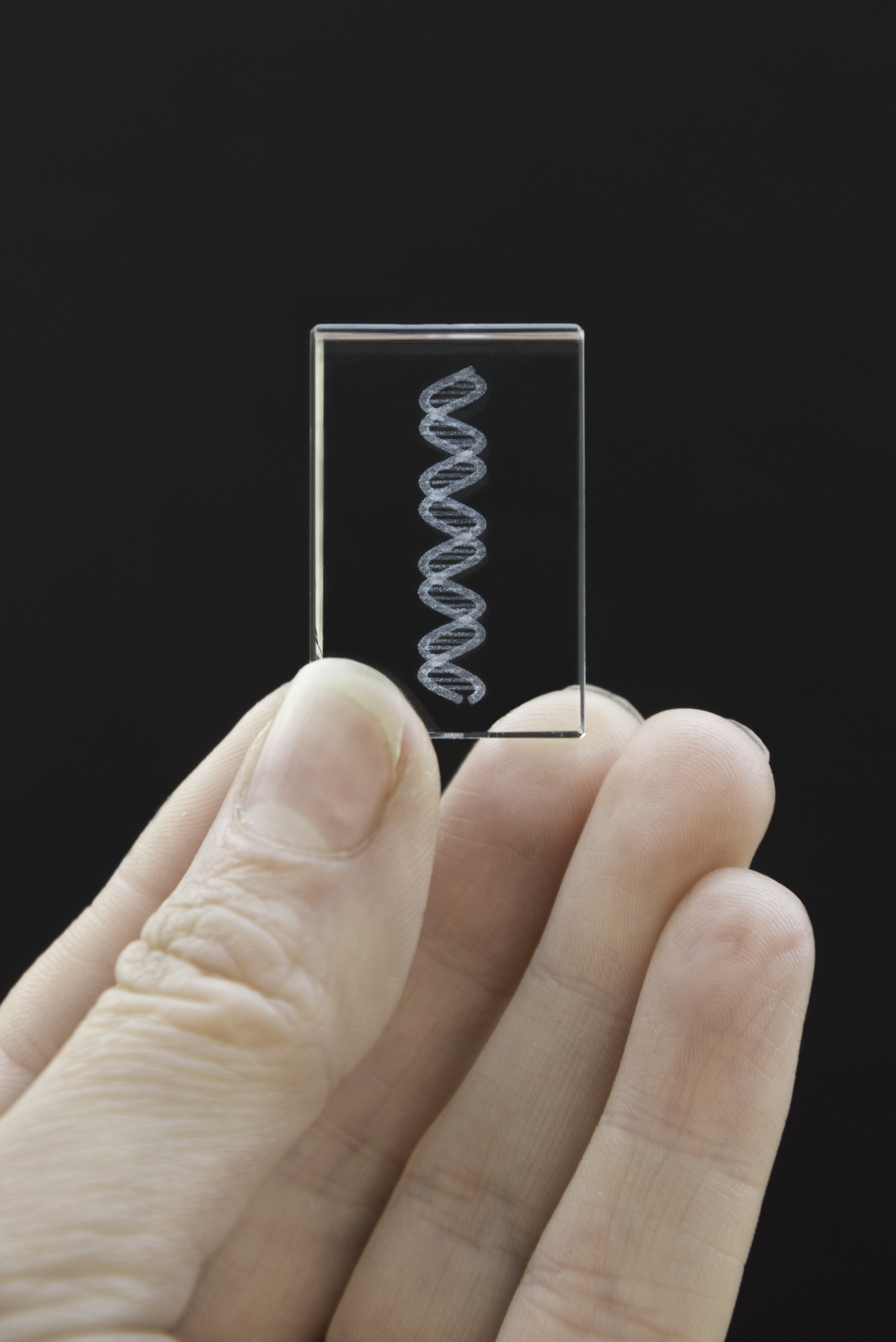 This is a model of DNA in an acrylic polymer in the hand of a research scientist. On this picture, DNA is used as a symbol of modern science.